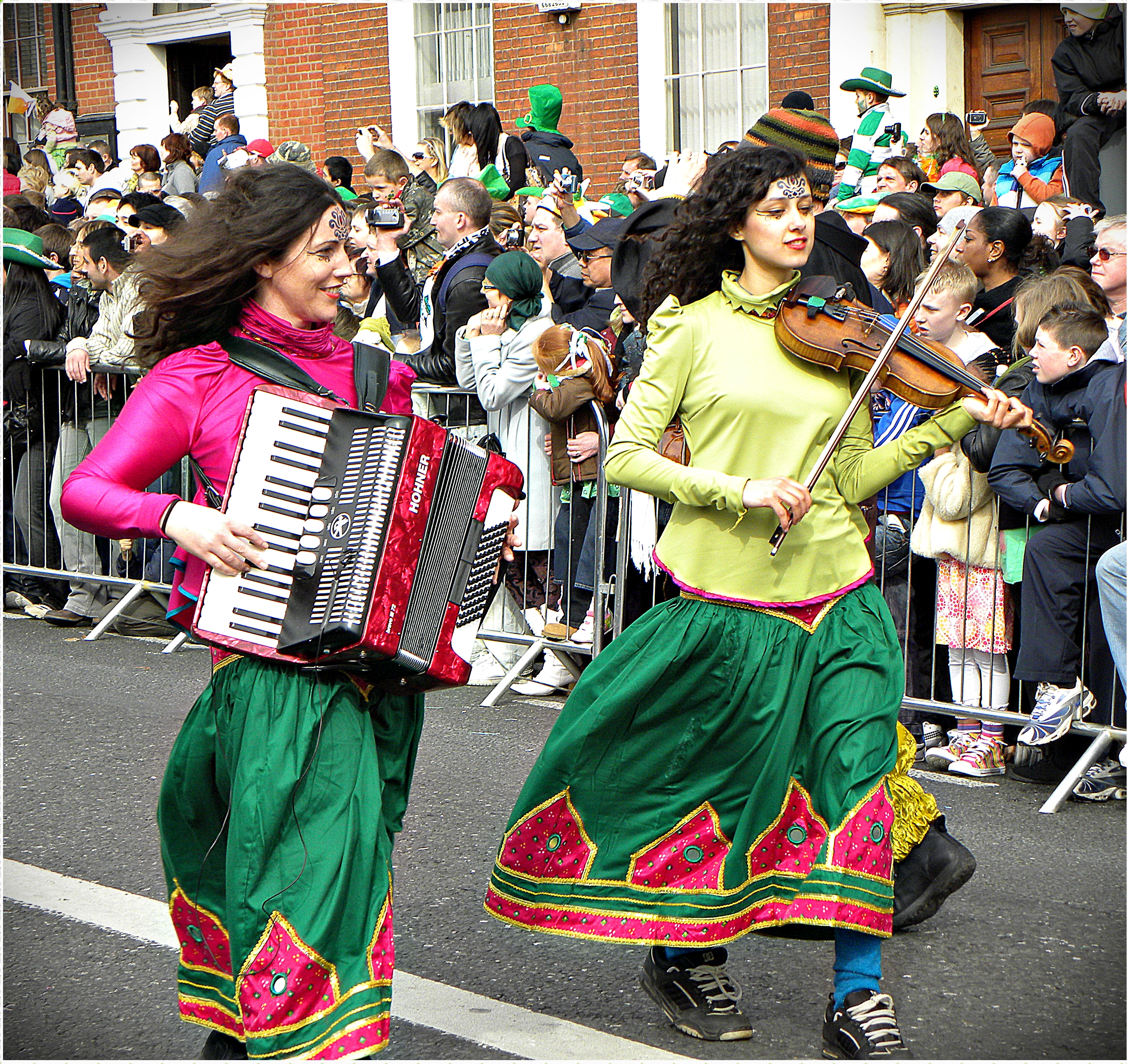 Saint Patrick's Day (Irish: Lá Fhéile Pádraig) in Dublin